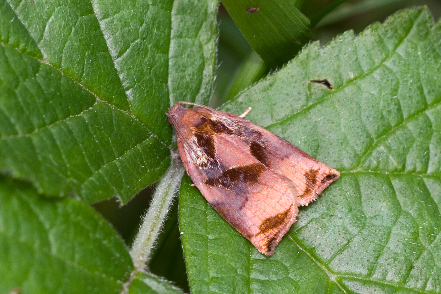 Archips podana